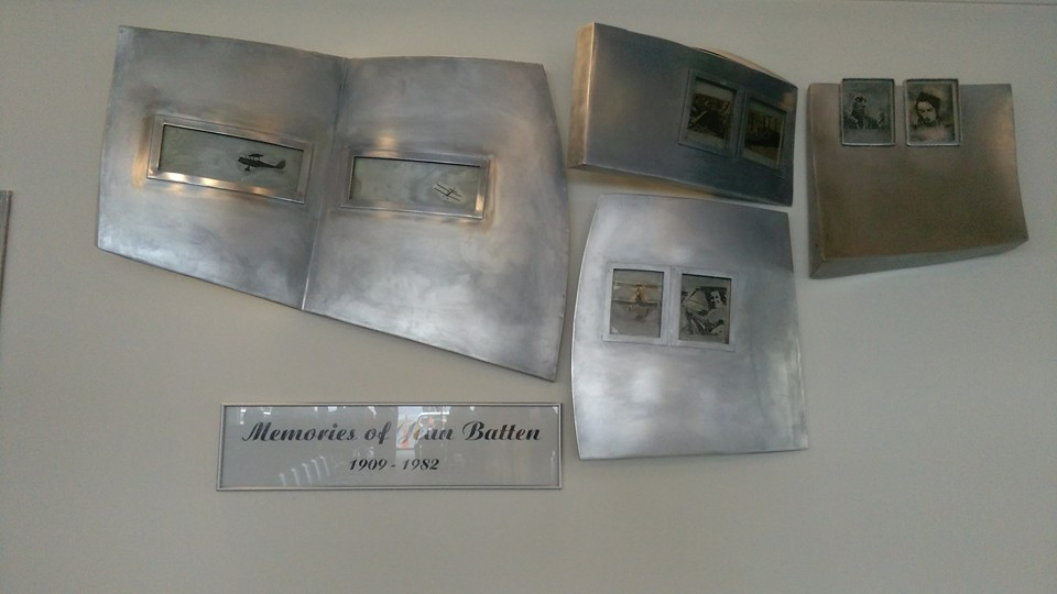 Memorial sculpture to Jean Batten at Rotorua Airport